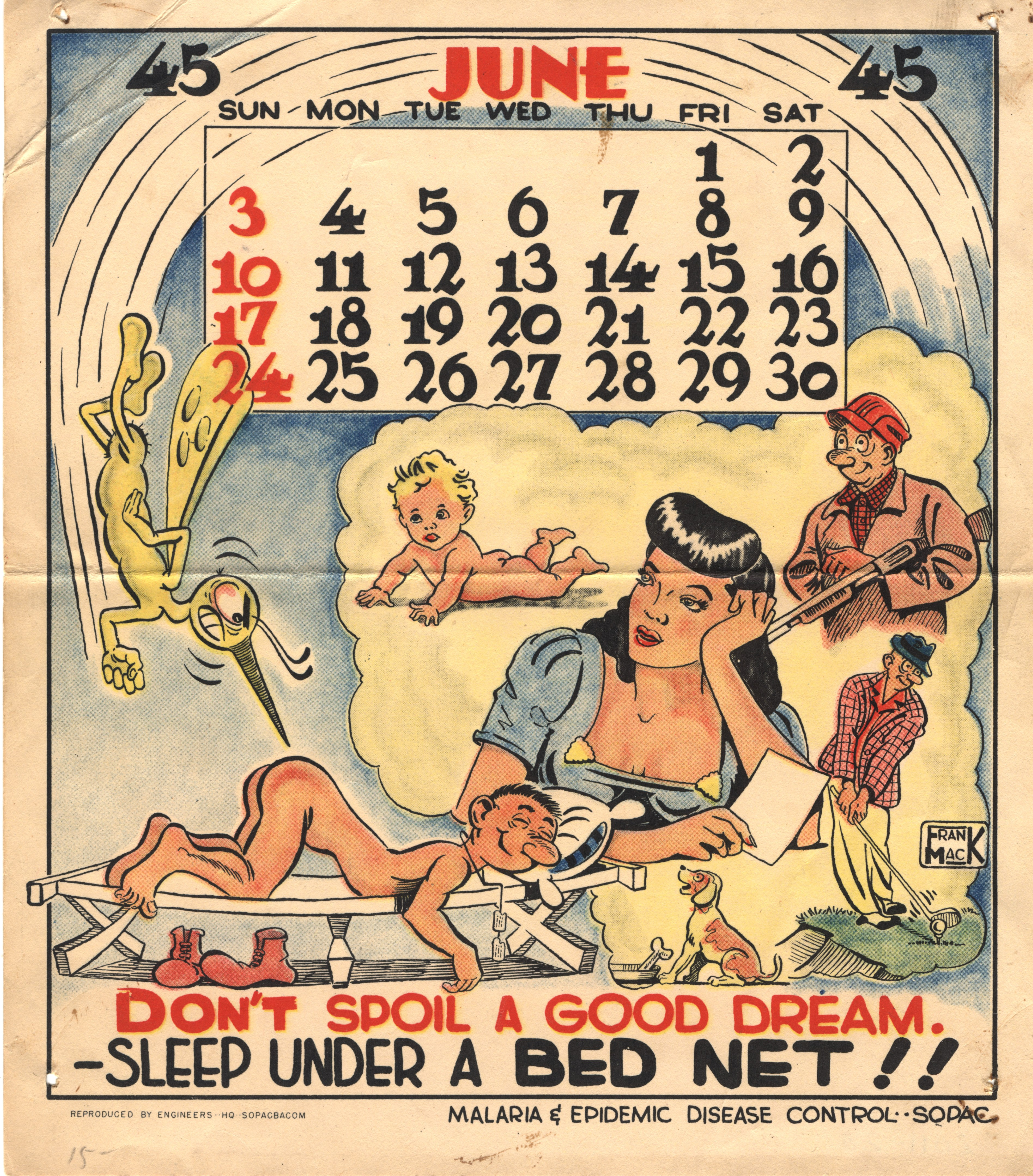 A naked man is shown sleeping on a cot. In a dream bubble above his head are images of a beautiful woman, a naked baby, a man carrying a rifle, a man swing a golf club, and an obedient dog. In reality, outside the dream bubble, an oversized mosquito is about to bite the posterior of the sleeping man.